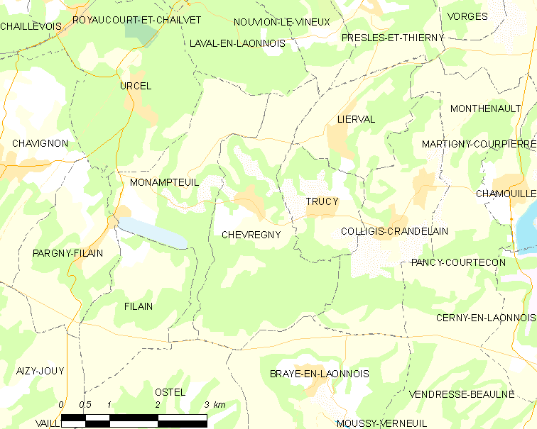 Map of French commune: Chevregny Map commune FR insee code 02183.png